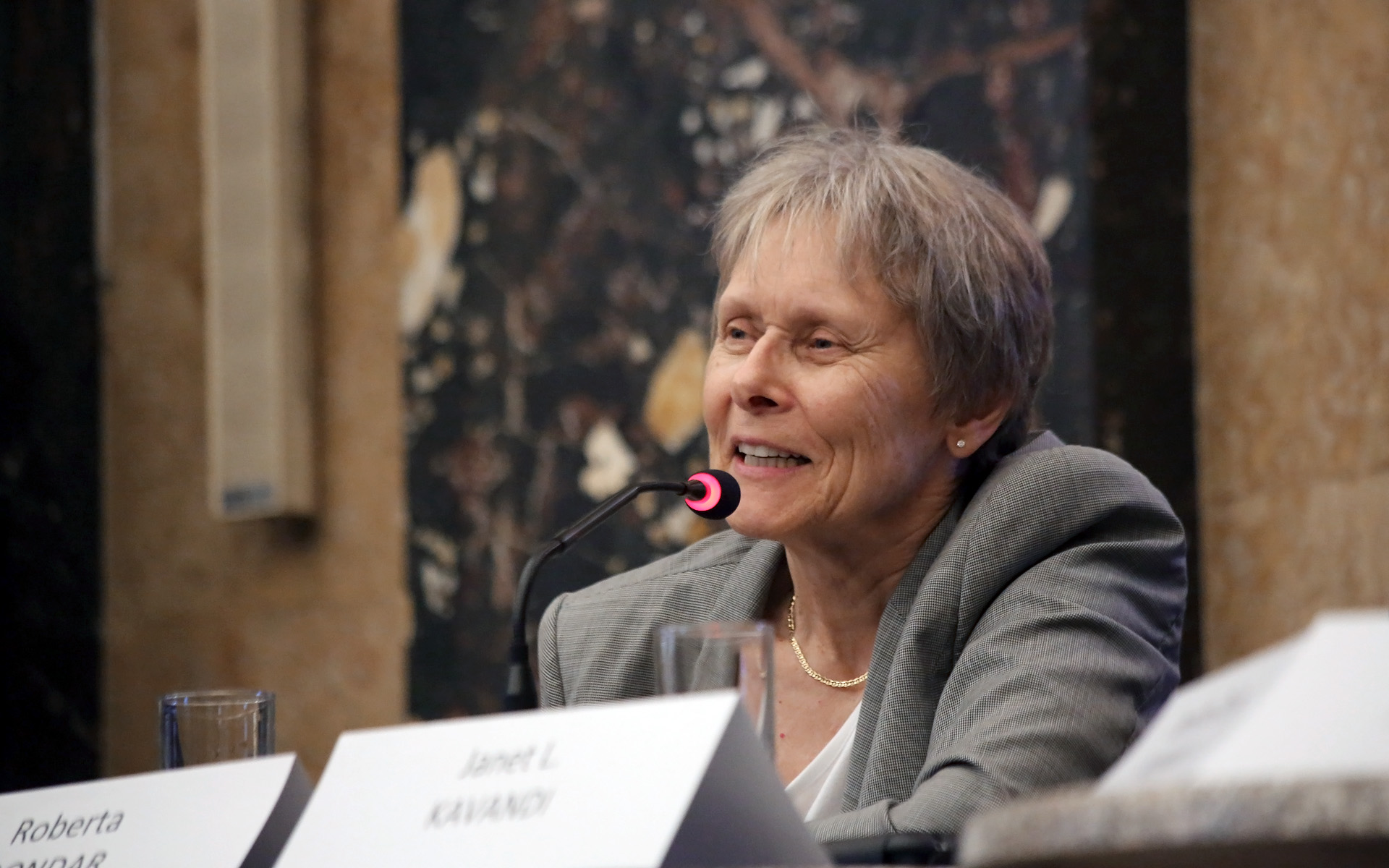 Women in Space: The Next 50 Years (Celebrating 50 Years of Women in Space) - public panel and discussion on invitation of UNOOSA with Roberta Bondar, Janet L. Kavandi, Dumitru-Dorin Prunariu, Chiaki Mukai and Liu Yang (Naturhistorisches Museum in Vienna, Austria).